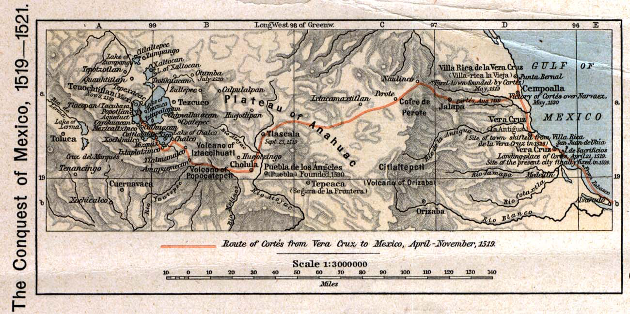 The 1519 to 1521 route of the Spanish conquest of the Aztec Empire — taken in Central Mexico by Hernando Cortés.